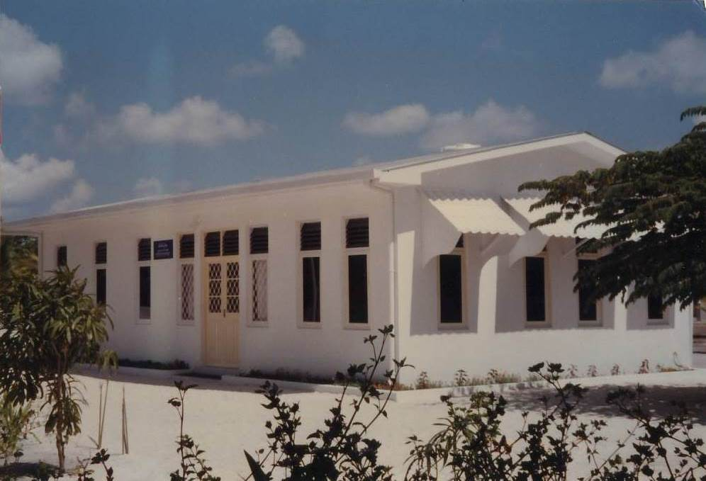 The earliest available photo of the health centre when it was inaugurated